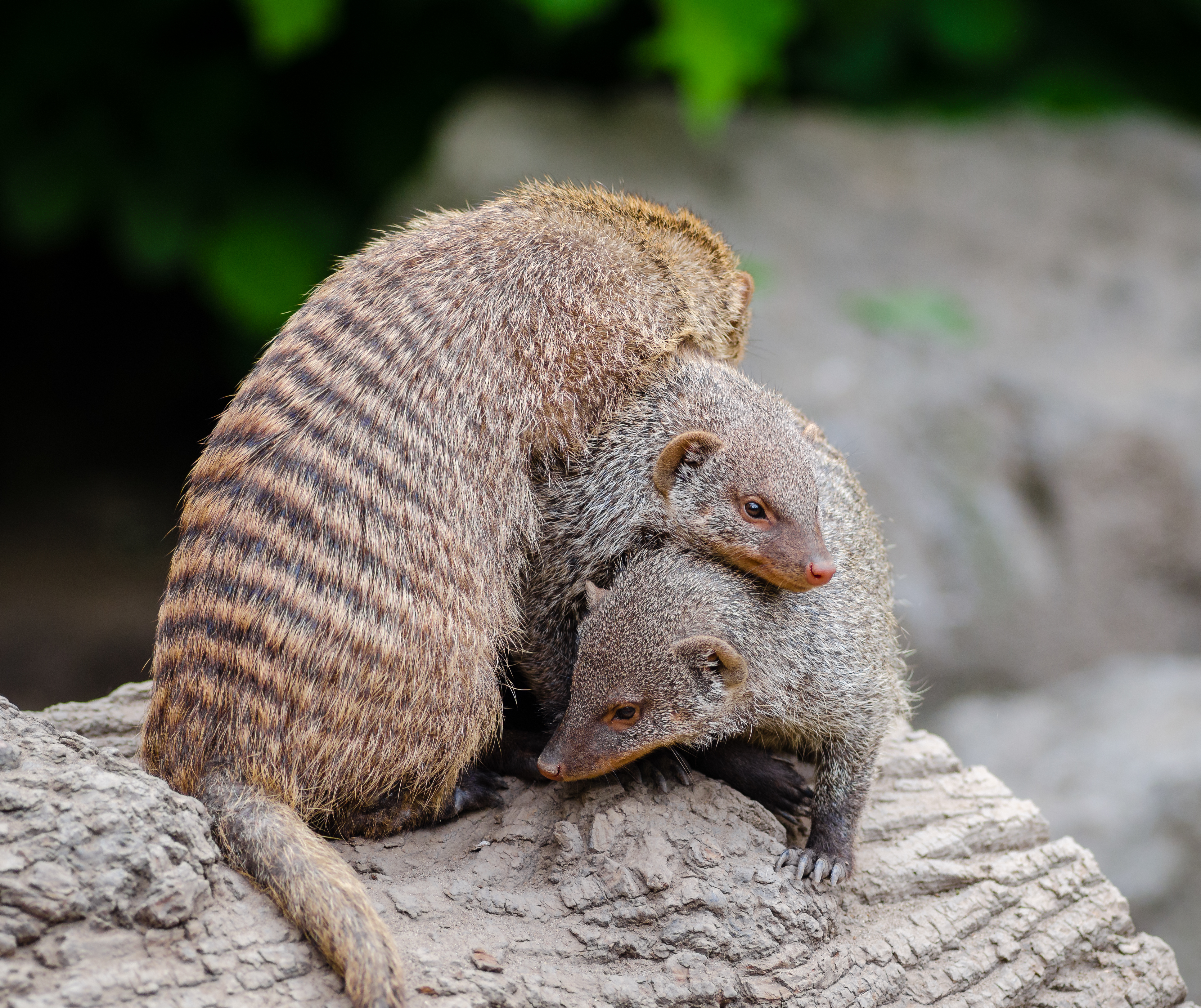 A pile of banded mongoose (Mungos mungo)